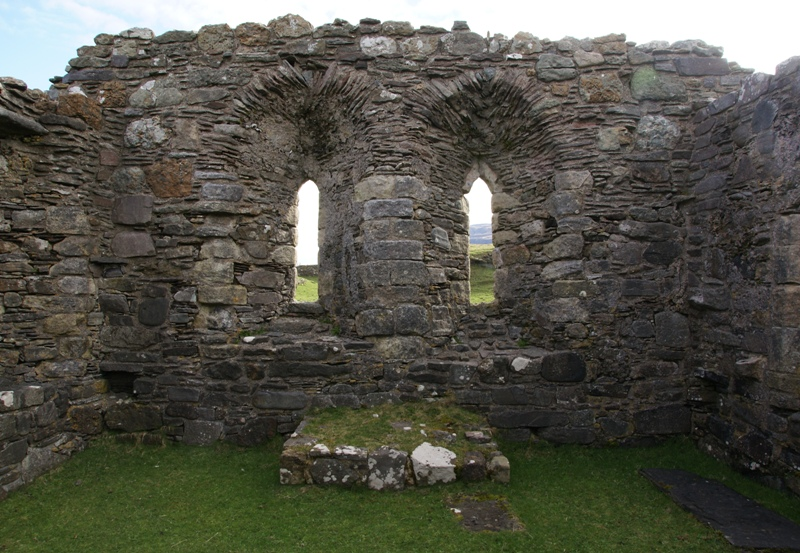 Inchkenneth Chapel, Inch Kenneth, Argyll and Bute, Scotland. Interior: chancel.